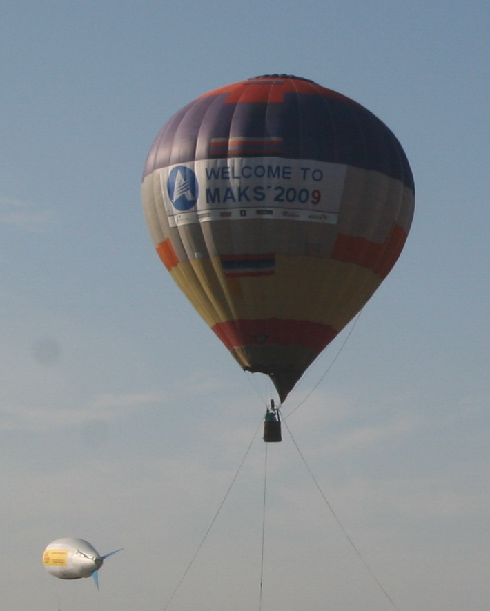 "Welcome to MAKS-2009" balloon at MAKS-2007